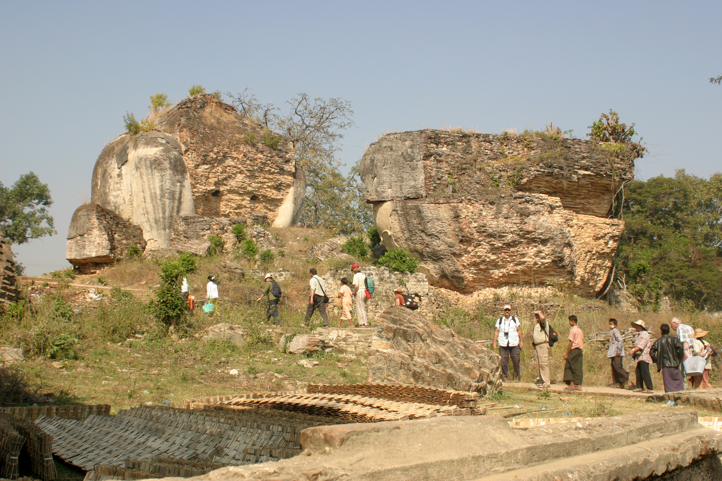 Mingun-Pagoda-Chinthe, Mingun, Myanmar